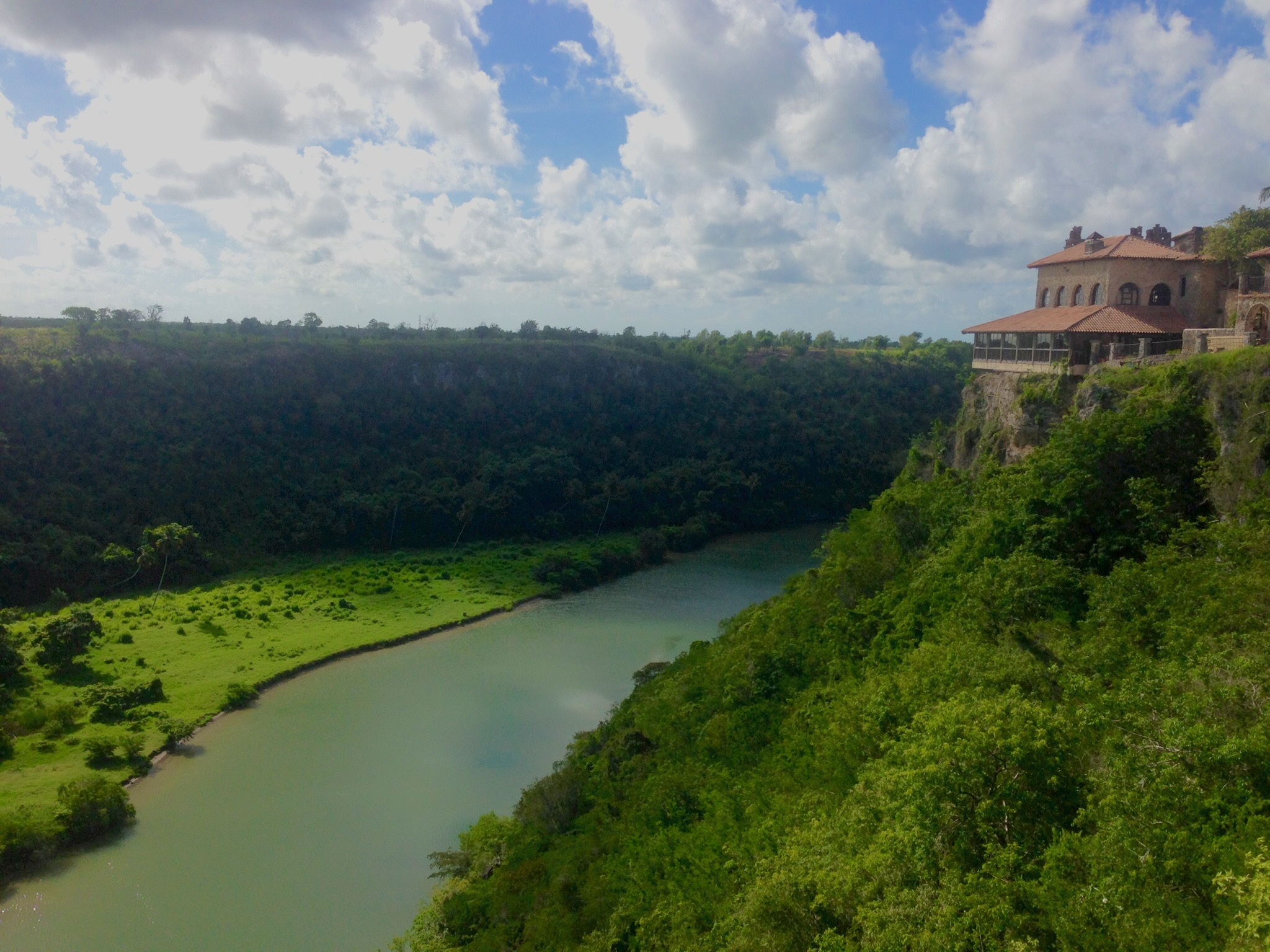 View of Chavón River from Altos de Chavón in La Romana.